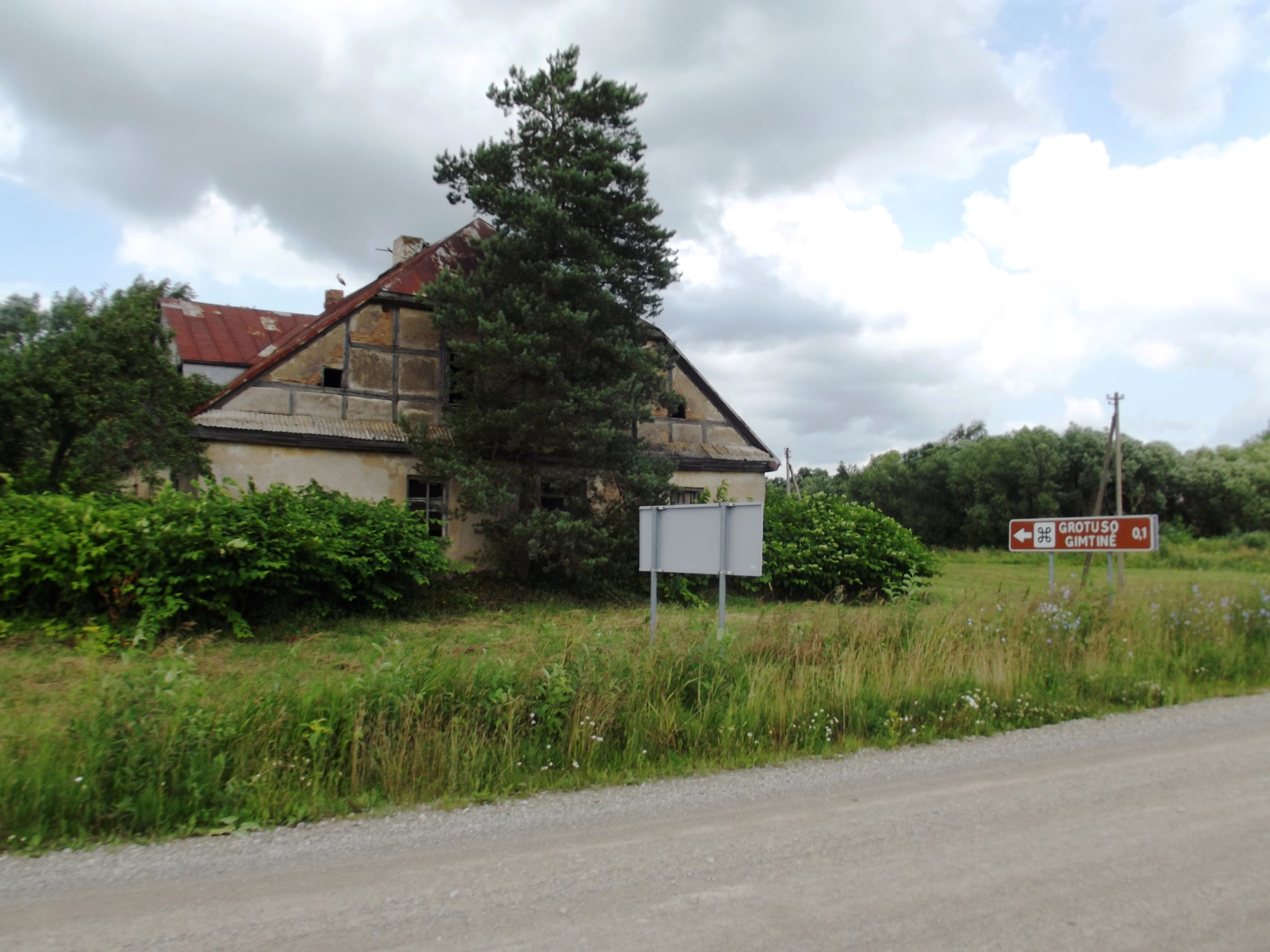 Gedučiai manor, family house of Theodor Grotthuss, Pakruojis district, Lithuania